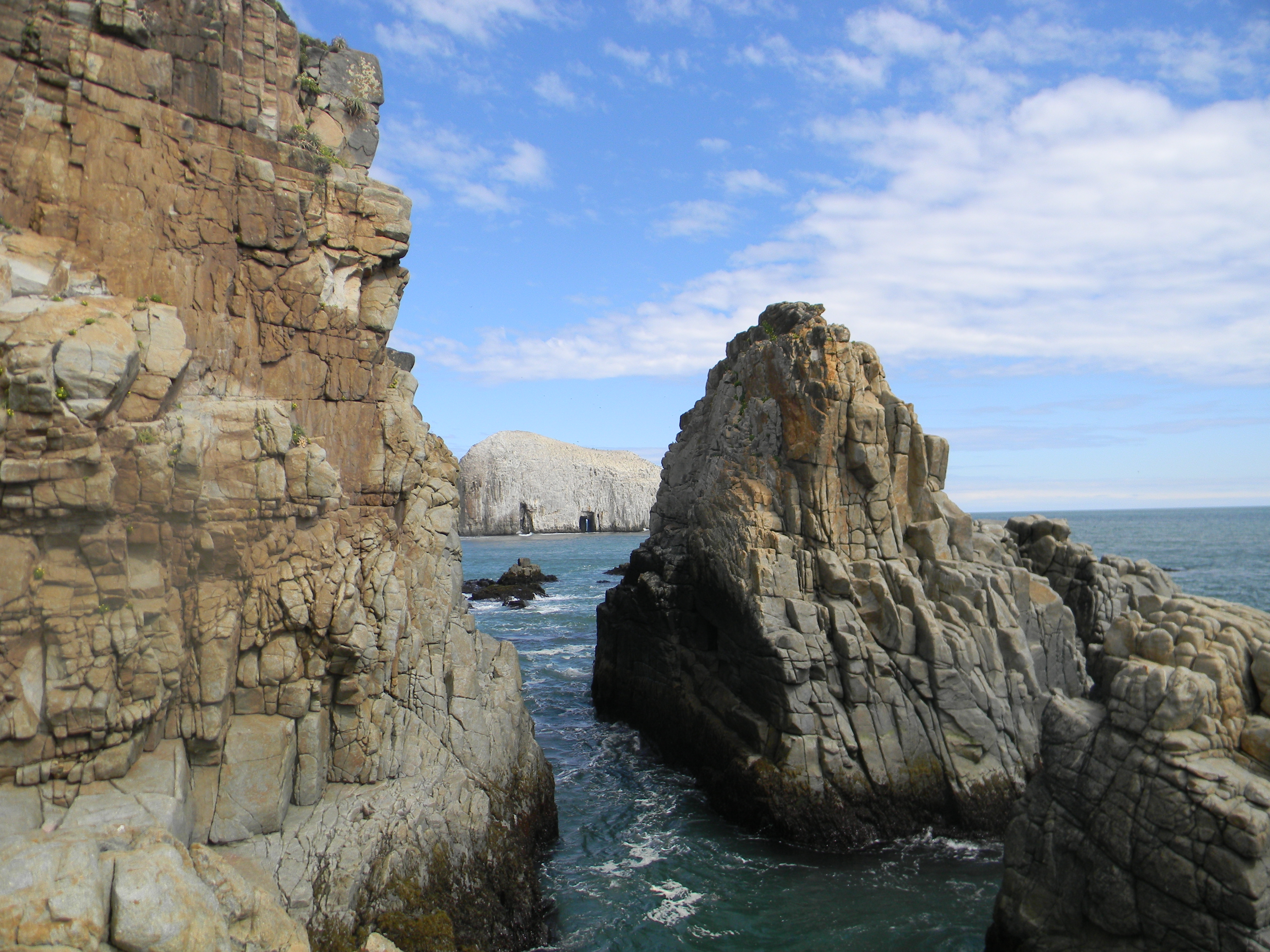 This is a photo of a national monument in Chile: 2001